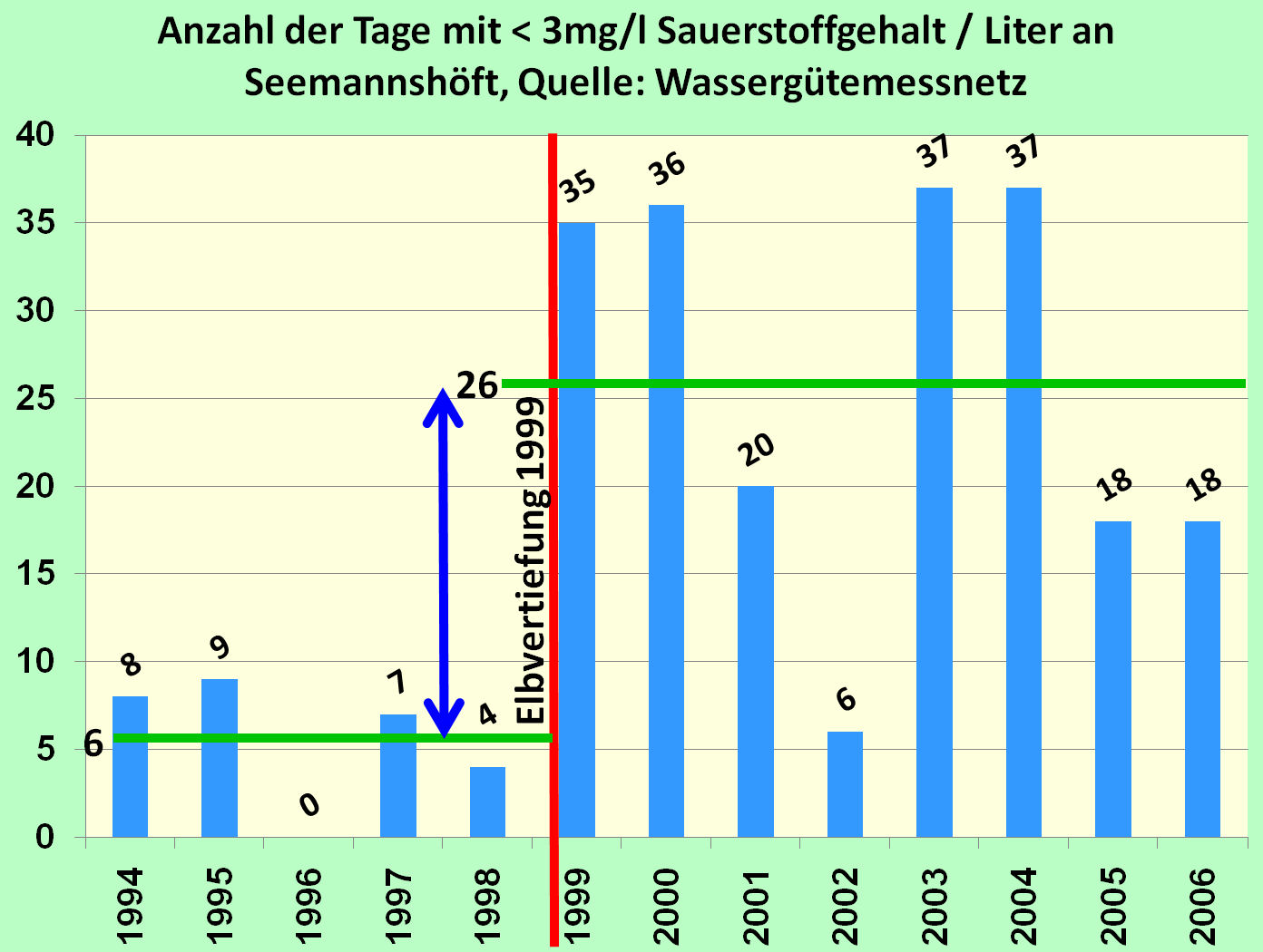 Oxygen days at River Elbe Semmannshöft from 1994 up to 2006